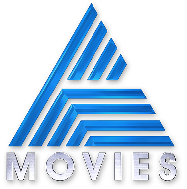 Logo of Asianet Movies